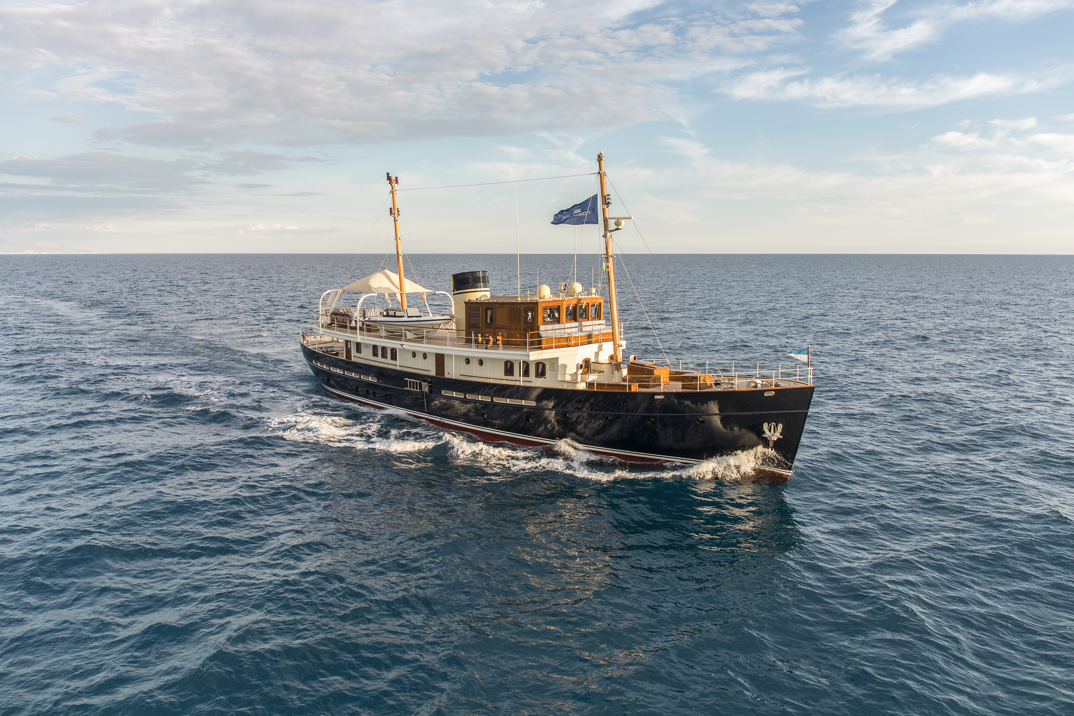 Cruising